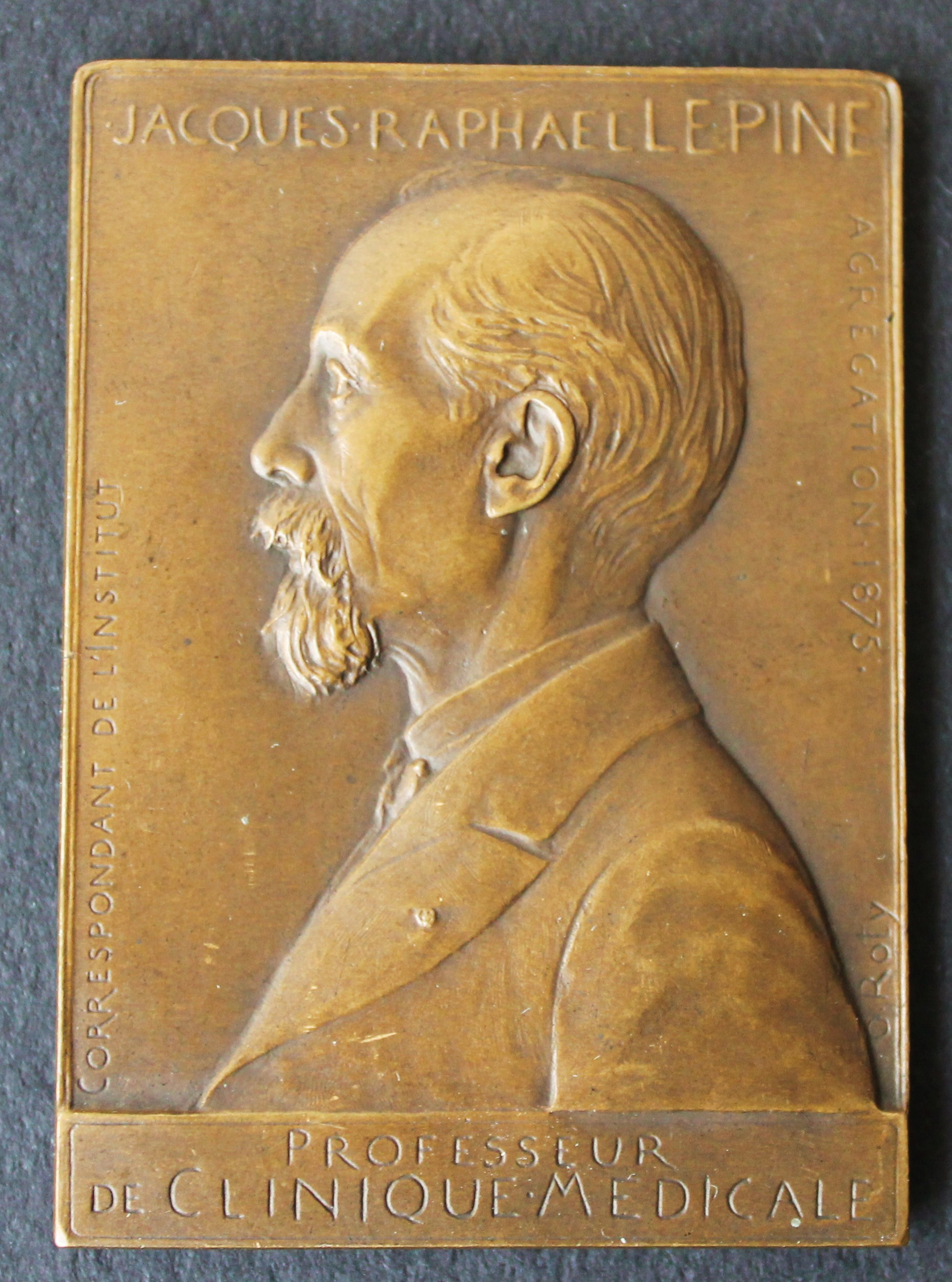 Raphaël Lépine (1840-1819) French physiologist, bronze medal by Oscar Roty